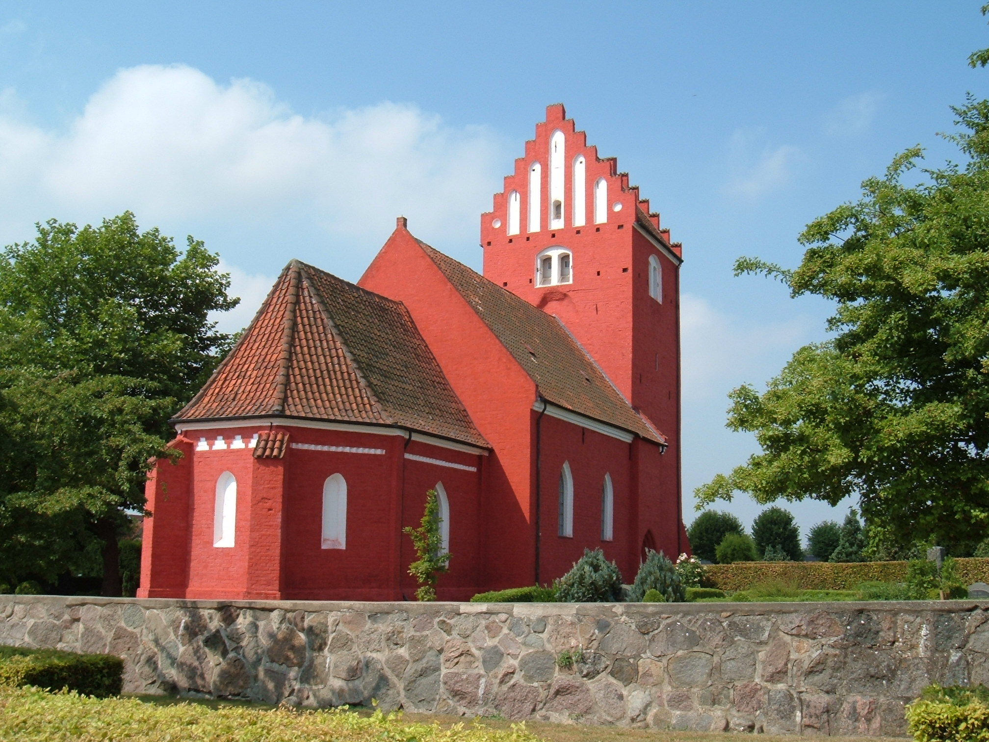 Nørre Alslev church on the island of Falster, Denmark. Taken by contributor, July 2006